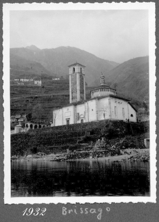 Church in Brissago, Ticino, Switzerland in 1932